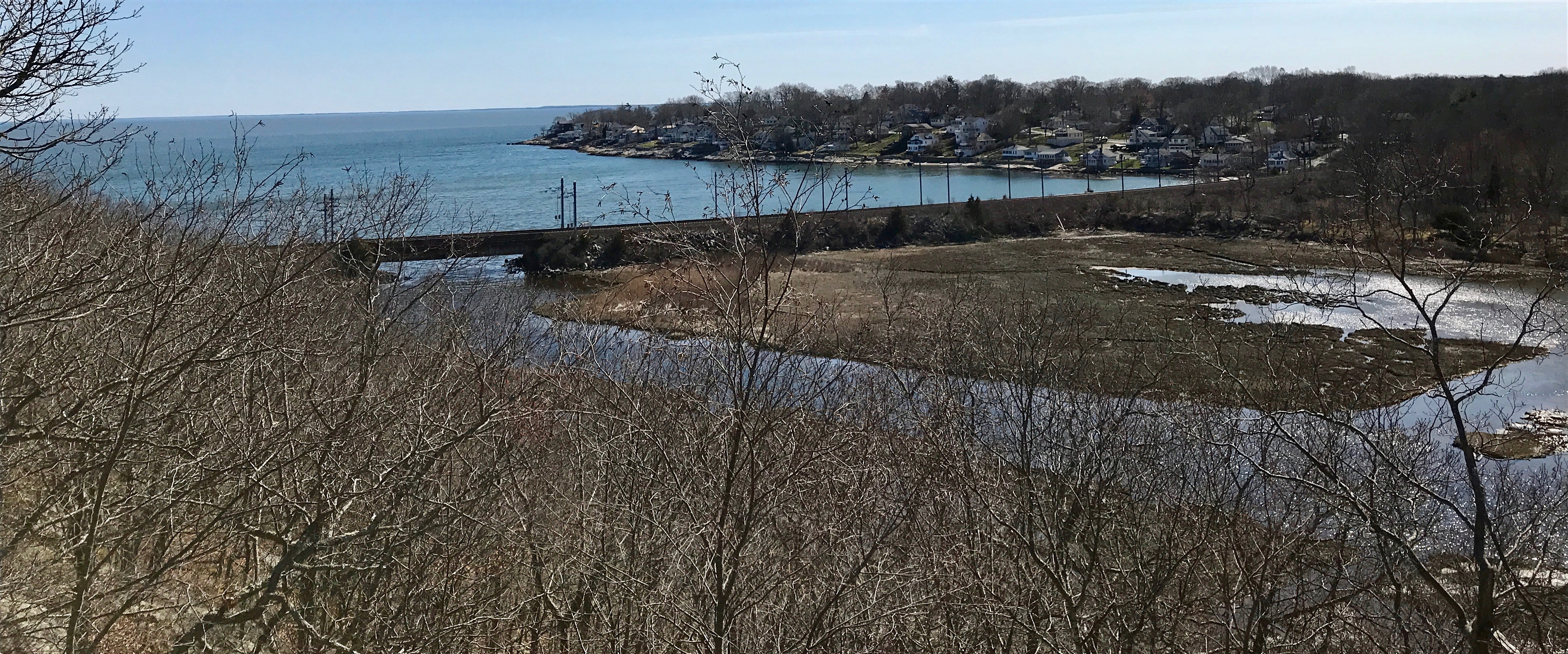 Railroad Bridge over Four Mile River view facing Old Lyme's Seaview Road shore.